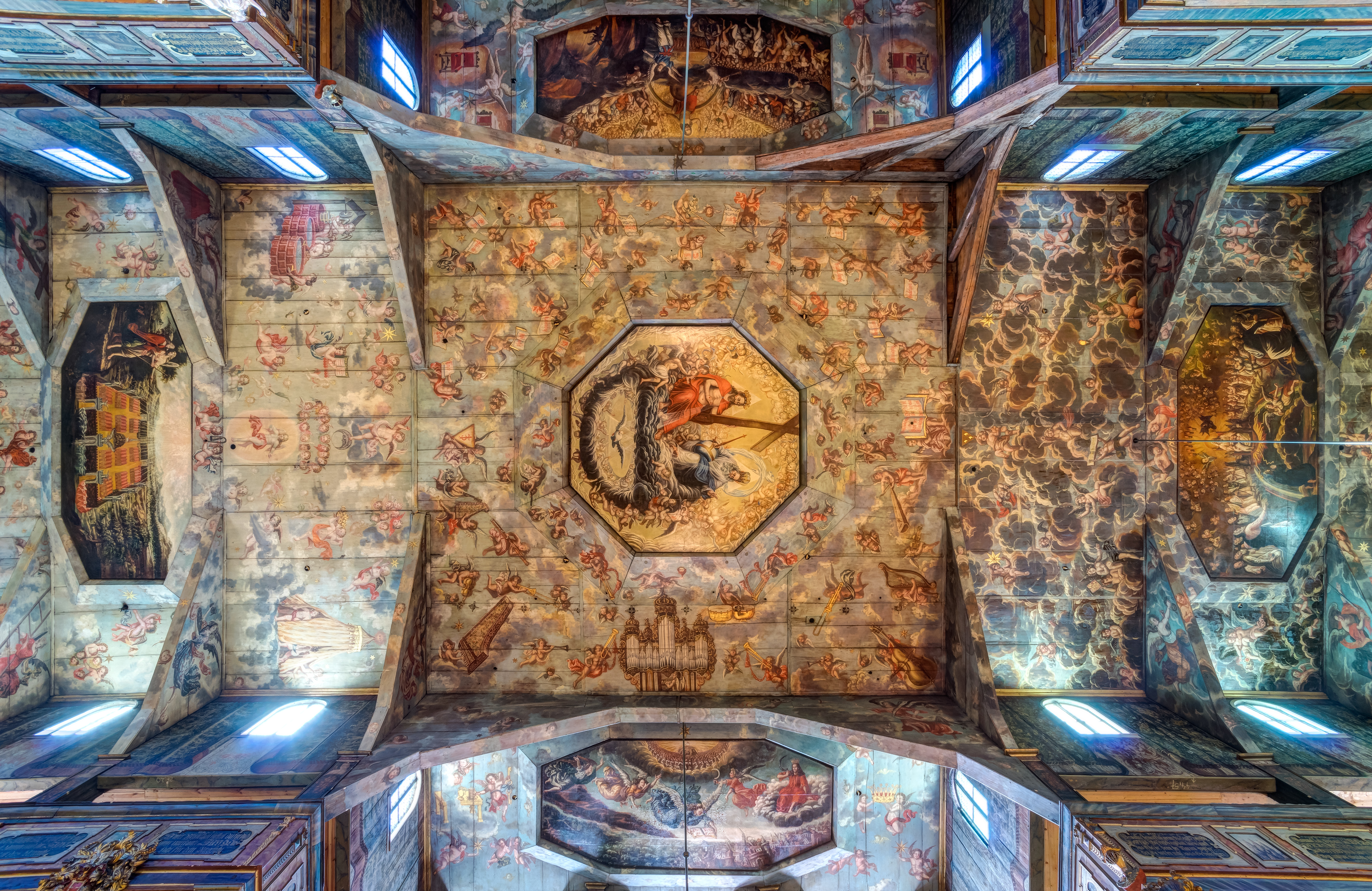 Ceiling of Church of Peace, Świdnica